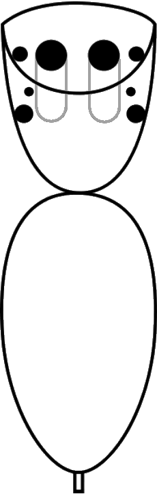 Jumping spider eyes layout, showing tube for main eyes. Ref: Harland, D.P., and Jackson, R.R. (2000). ""Eight-legged cats" and how they see - a review of recent research on jumping spiders (Araneae: Salticidae)" (PDF). Cimbebasia 16: 231–240. Retrieved on 5 May 2011.